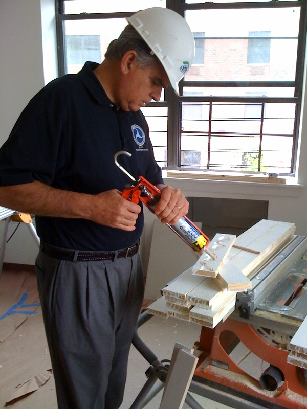 Ray LaHood, United States Secretary of Transportation, applies low-VOC adhesive with a caulking gun at the construction site of the Habitat for Humanity Atlantic Avenue Apartments, 2331 Atlantic Avenue (between Eastern Parkway and Sherlock Place) in the in the Brownsville neighborhood of the borough of Brooklyn, New York City. The United States Cabinet and other senior administrators of the U.S. government did community service on to promote the beginning of the 2009 "United We Serve" community service initiative.